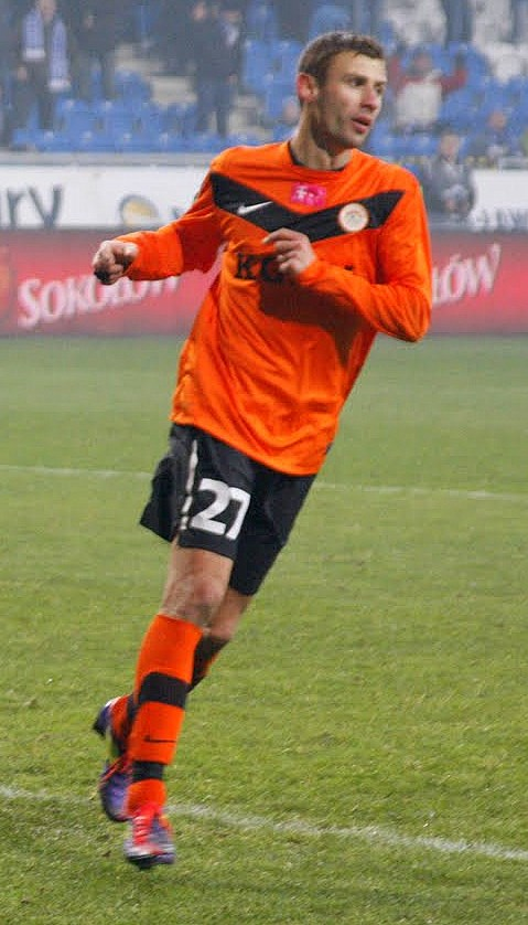 Slovak football player Michal Hanek as playing for Zagłębie Lubin